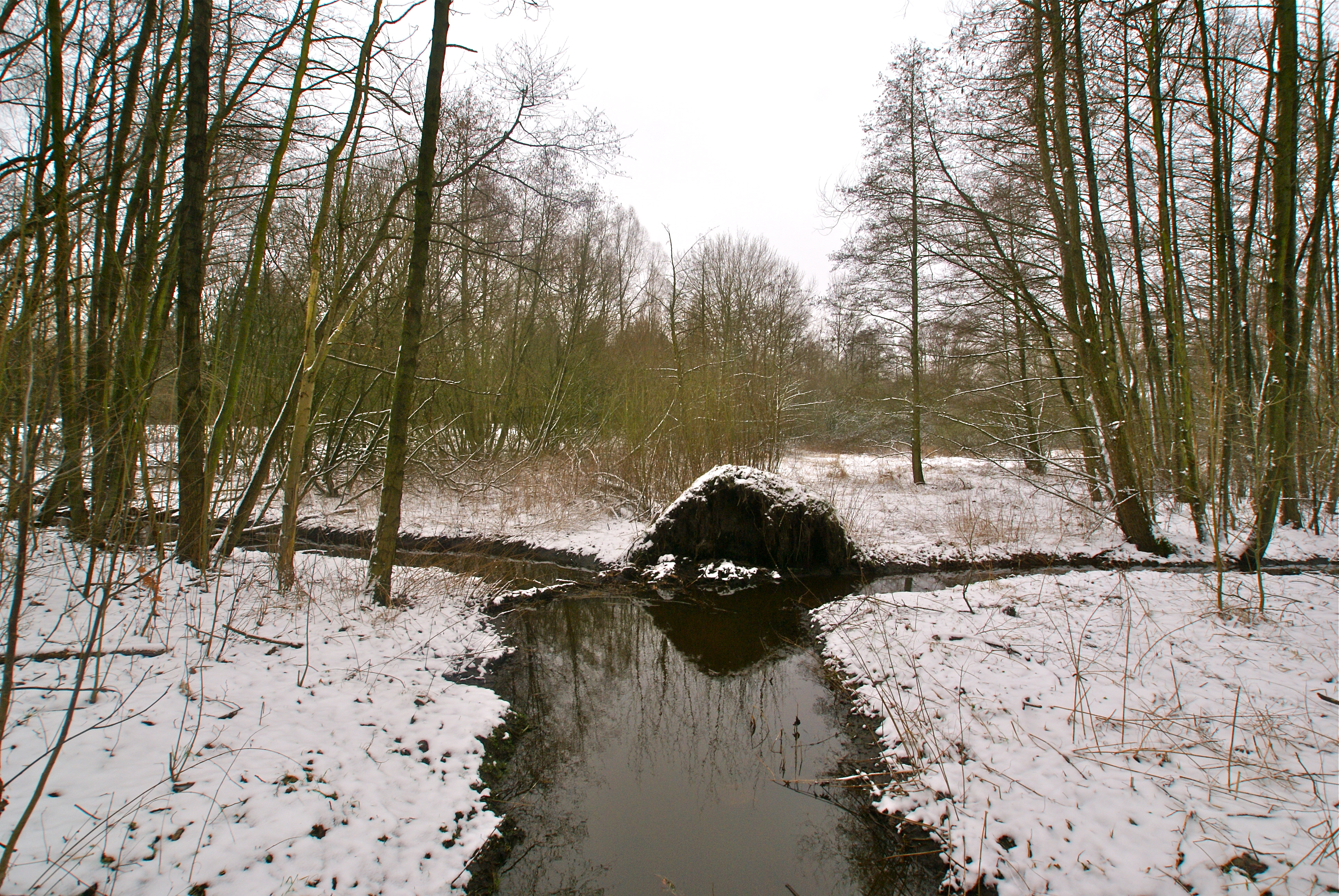 Hamburg (Niendorf), Germany: The river Vielohgrabenseen from the bridge of the Kollauwanderweg